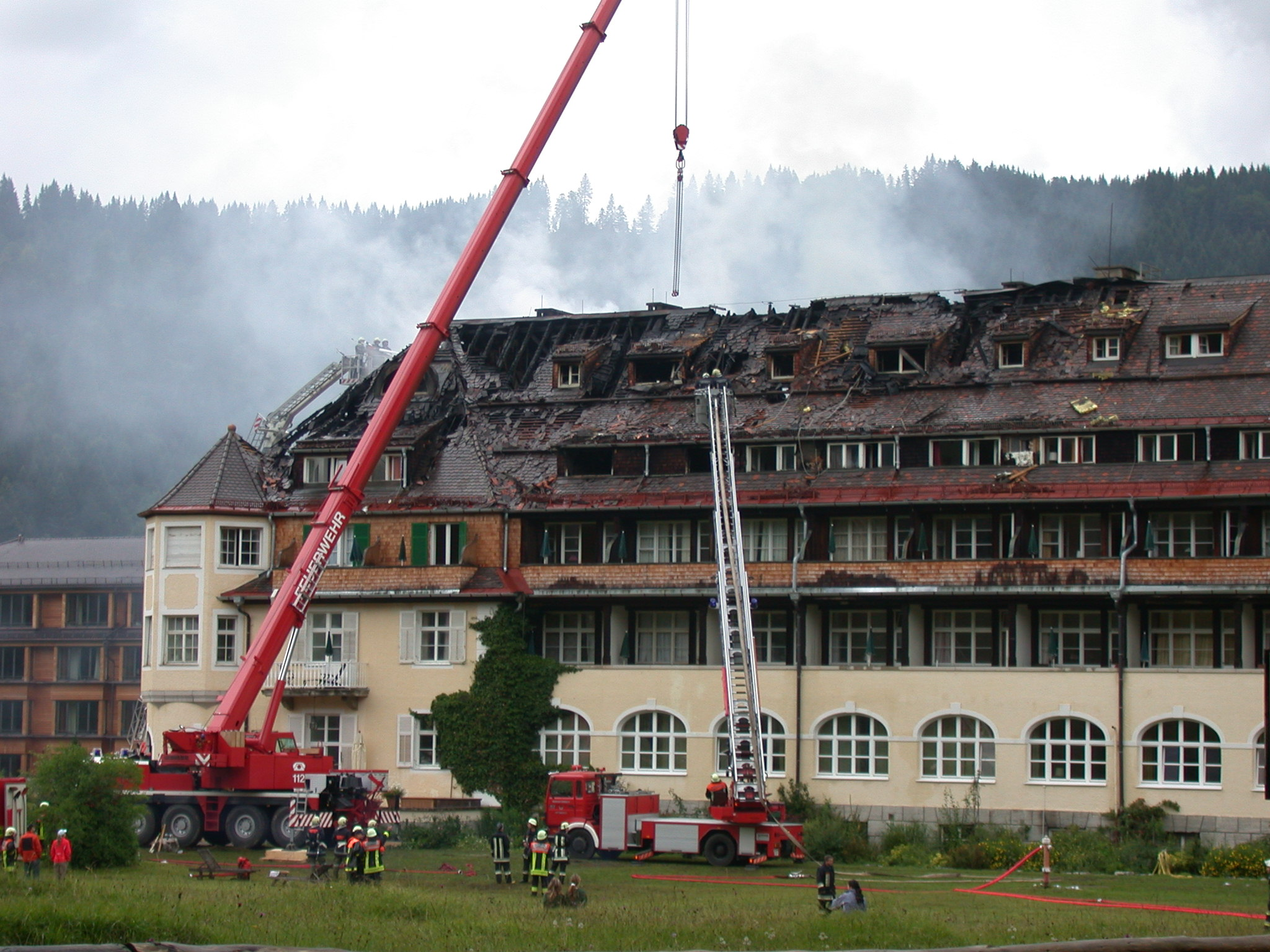 German firefighters extinguishing a fire at Schloss Elmau.